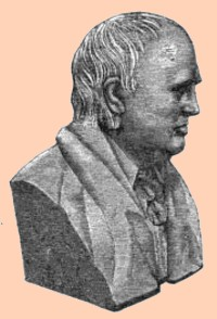 Abraham Van Vechten (December 5, 1762 – January 6, 1837) was an American lawyer and a Federalist politician who served twice as New York State Attorney General. Copy of a likeness of a bust of Van Vechten from volume 10 of Munsell's Annals of Albany. At one time, it was displayed in the New York State Capitol in Albany.